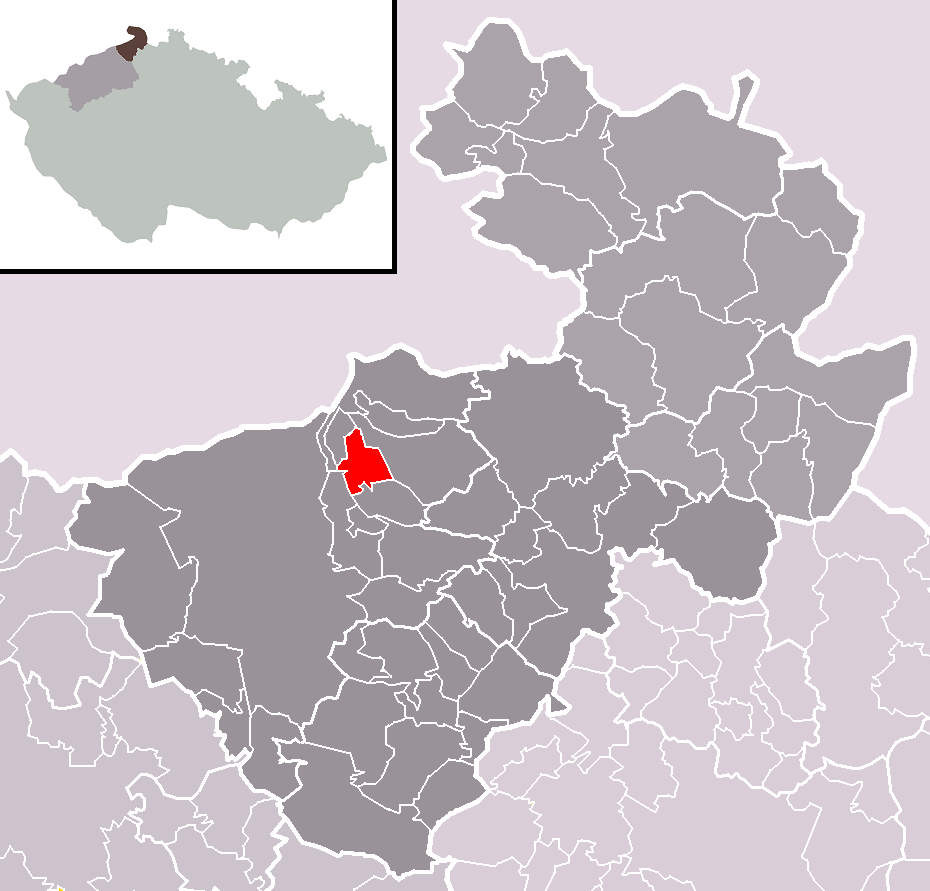 Location of Arnoltice municipality within Děčín District and administrative area of Děčín as a Municipality with Extended Competence.